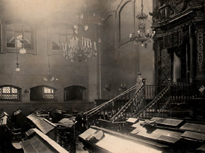 The Holy Ark of the Great Synagogue in Vilna, 1920-1930